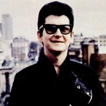 Trade ad for Roy Orbison's single "So Good".To better adapt it to his respective Wikipedia article, the ad was cropped and cleaned in a graphics editing program. The original can be viewed at the source below.